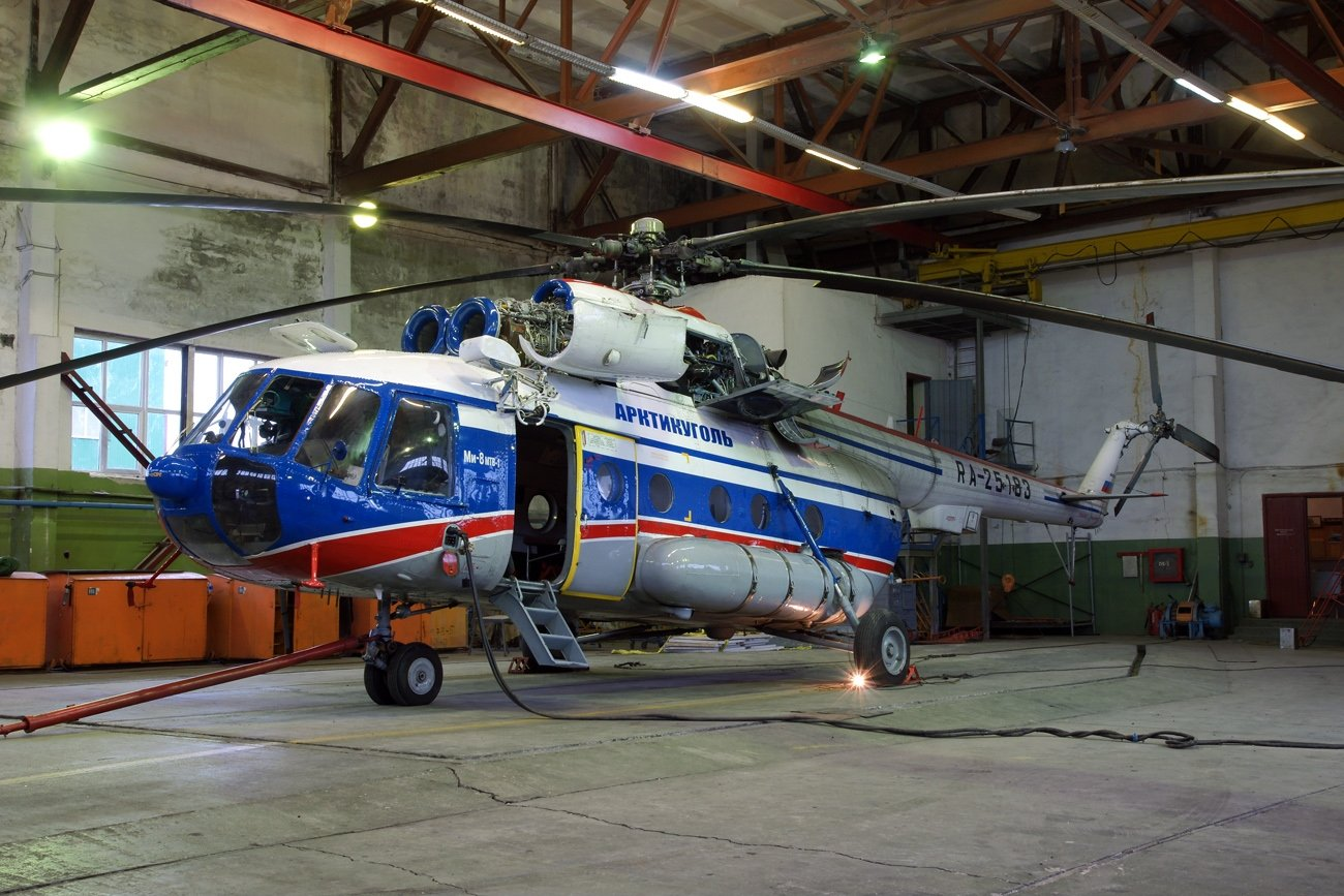 Spark Mil Mi-8MTV-1 at Barentsburg Heliport